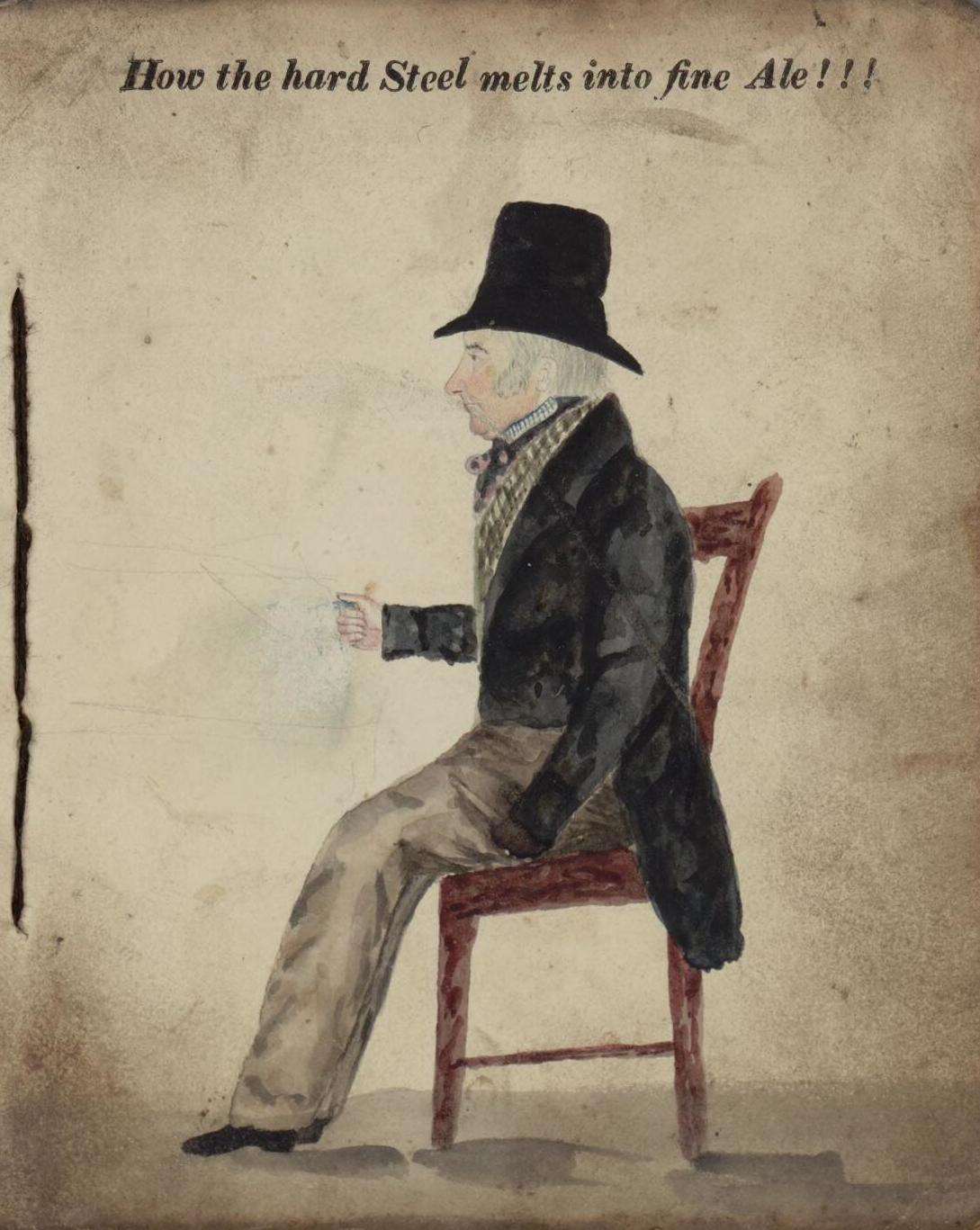 A portrait from the Welsh Portrait Collection at the National Library of Wales. Depicted person: [Morris Hughes]